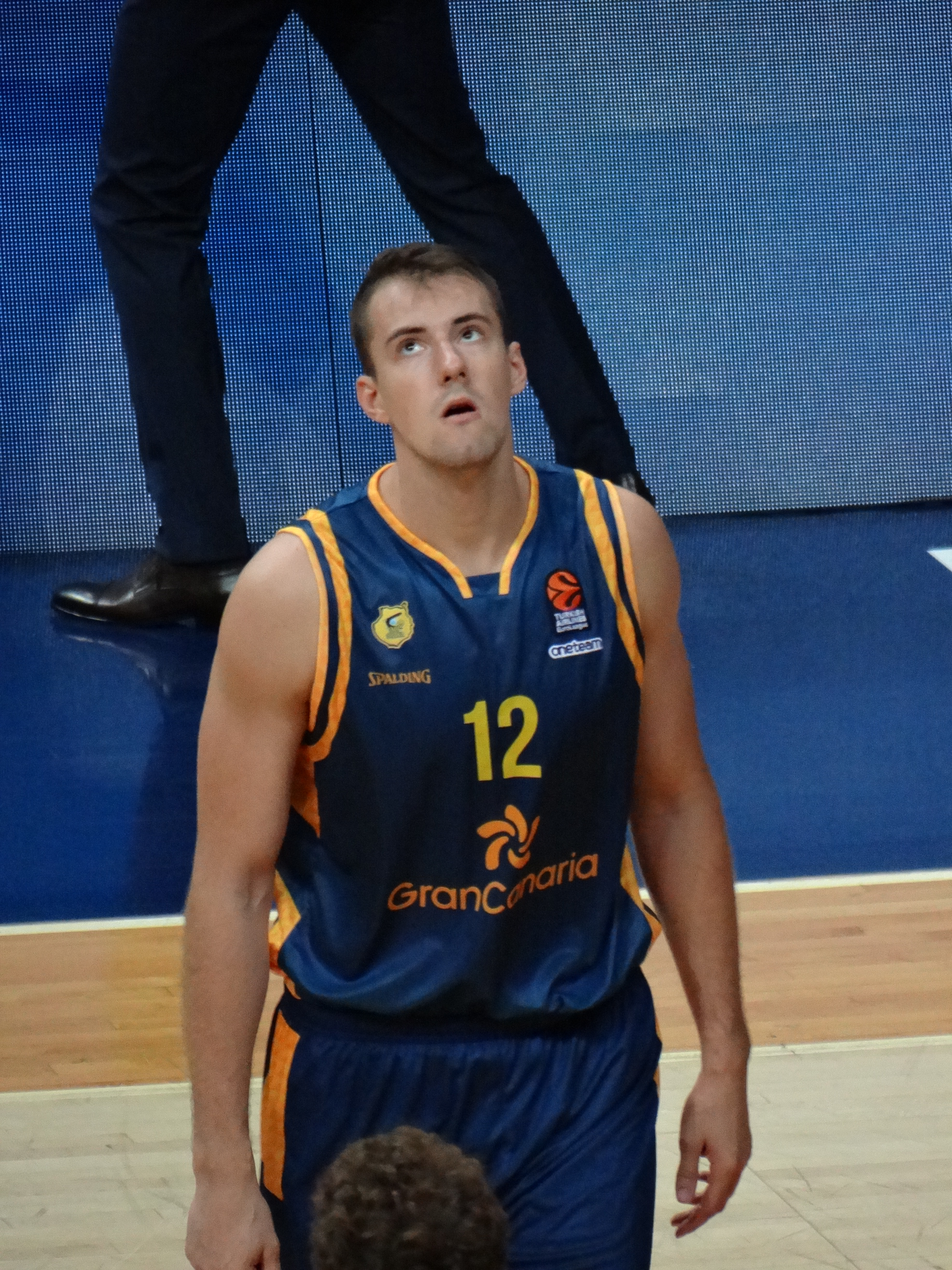 Ondřej Balvín 12 CB Gran Canaria EuroLeague 20181012